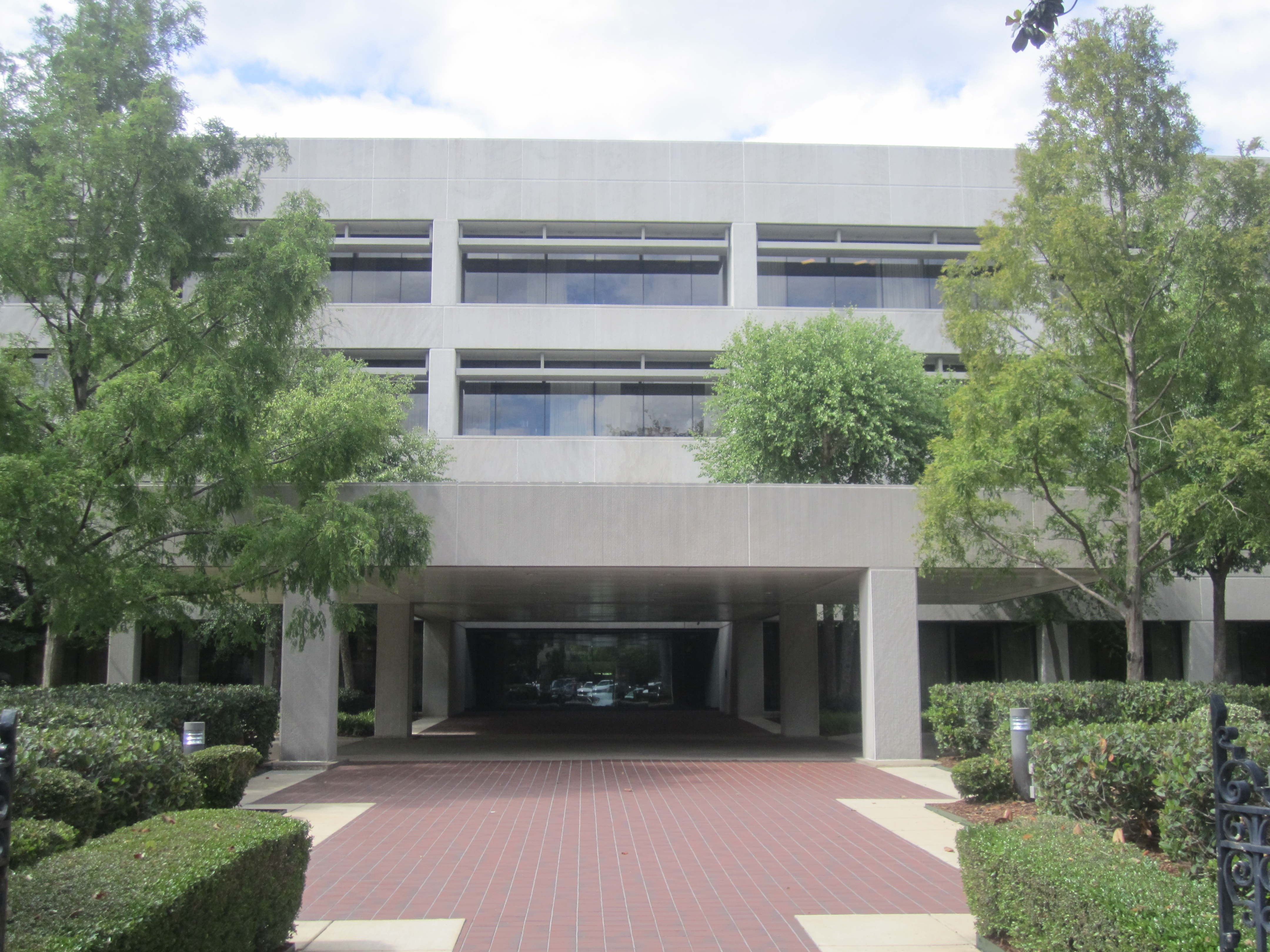 I took photo of Murphy Oil Co. headquarters in El Dorado, AR, with Canon camera.